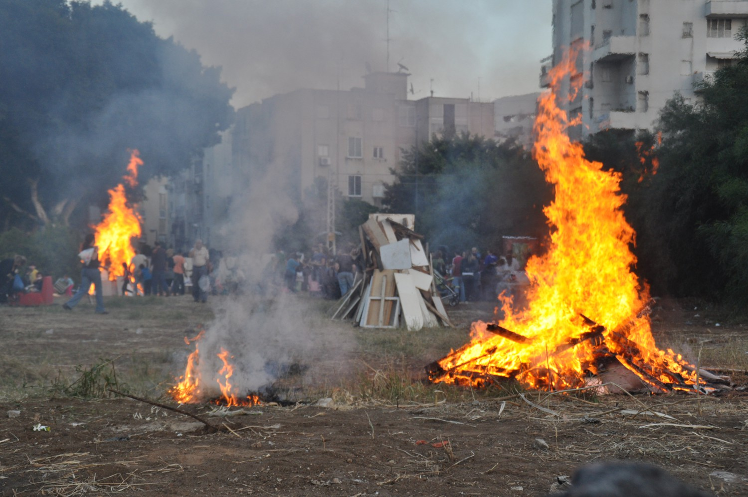 Religion in Israel